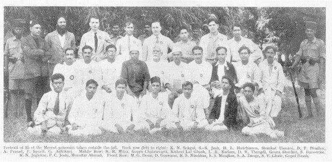 Portrait of 25 of the Meerut Prisoners taken outside the jail. Back row (left to right): K. N. Sehgal, S. S. Josh, H. L. Hutchinson, Shaukat Usmani, B. F. Bradley, A. Prasad, P. Spratt, G. Adhikari. Middle Row: R. R. Mitra, Gopen Chakravarti, Kishori Lal Ghosh, L. R. Kadam, D. R. Thengdi, Goura Shanker, S. Bannerjee, K. N. Joglekar, P. C. Joshi, Muzaffar Ahmed. Front Row: M. G. Desai, D. Goswami, R.S. Nimbkar, S.S. Mirajkar, S.A. Dange, S. V. Ghate, Gopal Basak. ਪੰਜਾਬੀ: 25 ਮੇਰਠ ਕੈਦੀਆਂ ਦੇ ਪੋਰਟਰੇਟ, ਜੇਲ੍ਹ ਦੇ ਬਾਹਰ ਬੈਠੇ ਹਨ ਪਿੱਛੇ ਵਾਲੀ ਕਤਾਰ:(ਖੱਬੇ ਤੋਂ ਸੱਜੇ) K.N. ਸਹਿਗਲ, ਐਸ.ਐਸ. ਜੋਸ਼, H pa:ਲੈਸਟਰ ਹਚਿਸਨ, pa:ਸ਼ੌਕਤ ਉਸਮਾਨੀ, ਐਫ ਬਰੈਡਲੇ, ਕੇ ਪ੍ਰਸਾਦ, pa:ਫ਼ਿਲਿਪੁੱਸ ਸਪਰਾਟ, ਅਤੇ ਜੀ. ਅਧਿਕਾਰੀ ਮਿਡਲ ਕਤਾਰ : ਕੇ ਆਰ ਮਿੱਤਰਾ, Gopan Chakravarthy, ਕਿਸ਼ੋਰ ਲਾਲ ਘੋਸ਼, KL ਕਦਮ, D.R. Thengdi, Goura ਸ਼ੰਕਰ, ਸ ਬੈਨਰਜੀ, K.N. Joglekar, ਪੀ ਸੀ ਜੋਸ਼ੀ, ਮੁਜ਼ੱਫਰ ਅਹਿਮਦ. ਸਾਹਮਣੀ ਕਤਾਰ : M.G. ਦੇਸਾਈ, G. ਗੋਸਵਾਮੀ, R.S. Nimkar, ਐਸ ਐਸ ਮਿਰਾਜਕਰ, ਐਸ ਏ ਡਾਂਗੇ, ਗੀ ਵੀ ਘਾਟੇ ਅਤੇ ਗੋਪਾਲ ਬਸਕ.